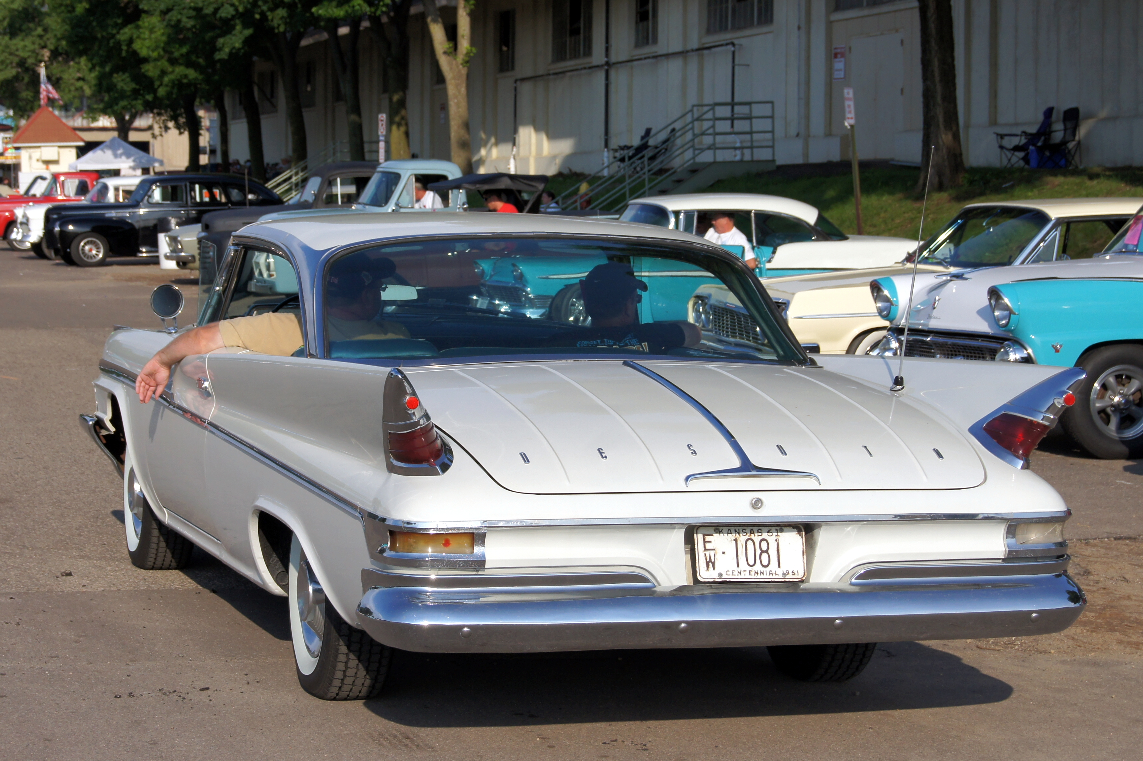 MSRA “BACK TO THE 50′s” 40th ANNIVERSARY June 21-23, 2013 State Fairgrounds St. Paul Minnesota More Car Pictures